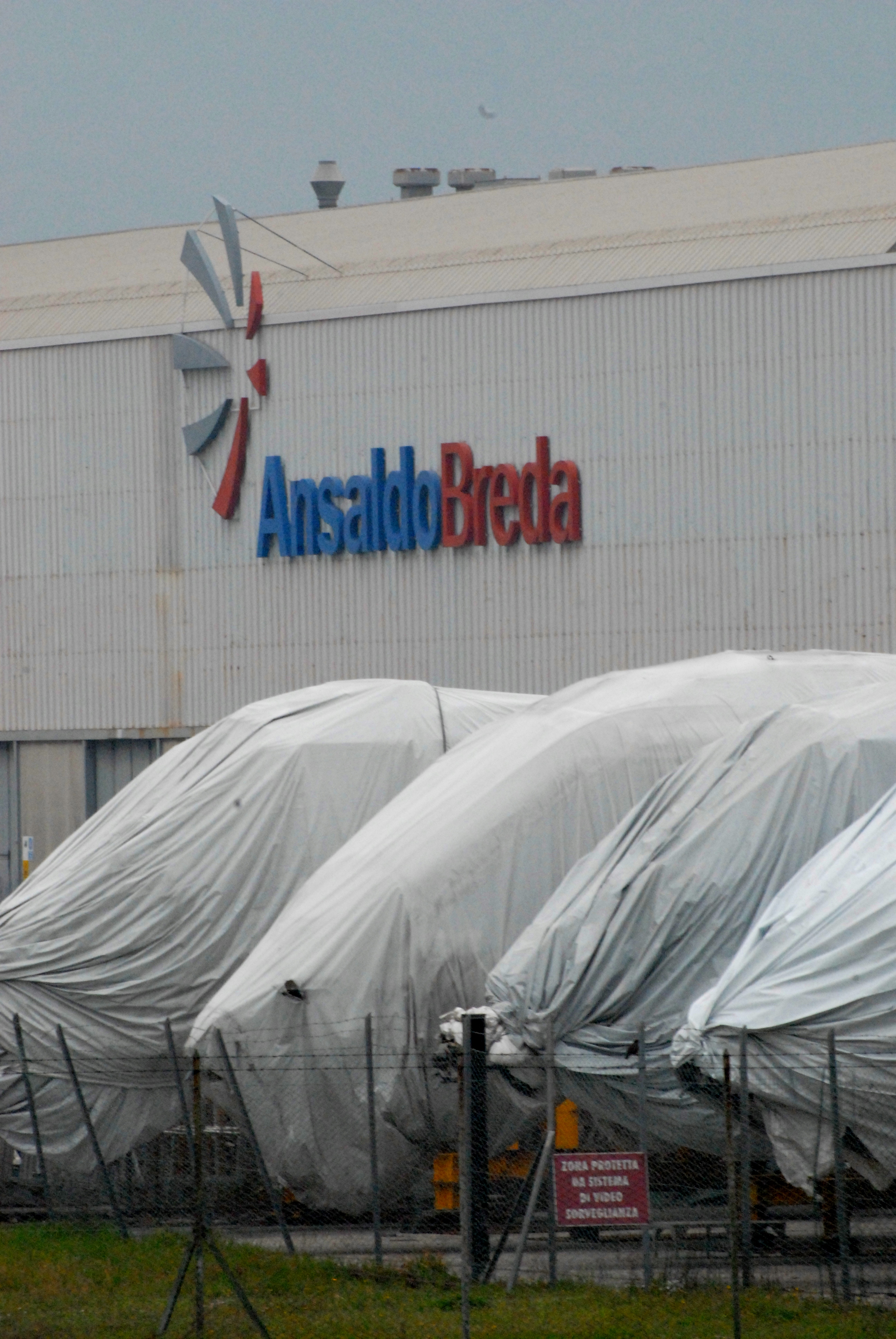 Photos from the AnsaldoBreda factory in Pistoia, Italy. Mothballed rolling stock in the external yard. Most of the trains are IC4 trainsets waiting to be delivered to DSB after the solving of the current technical problems